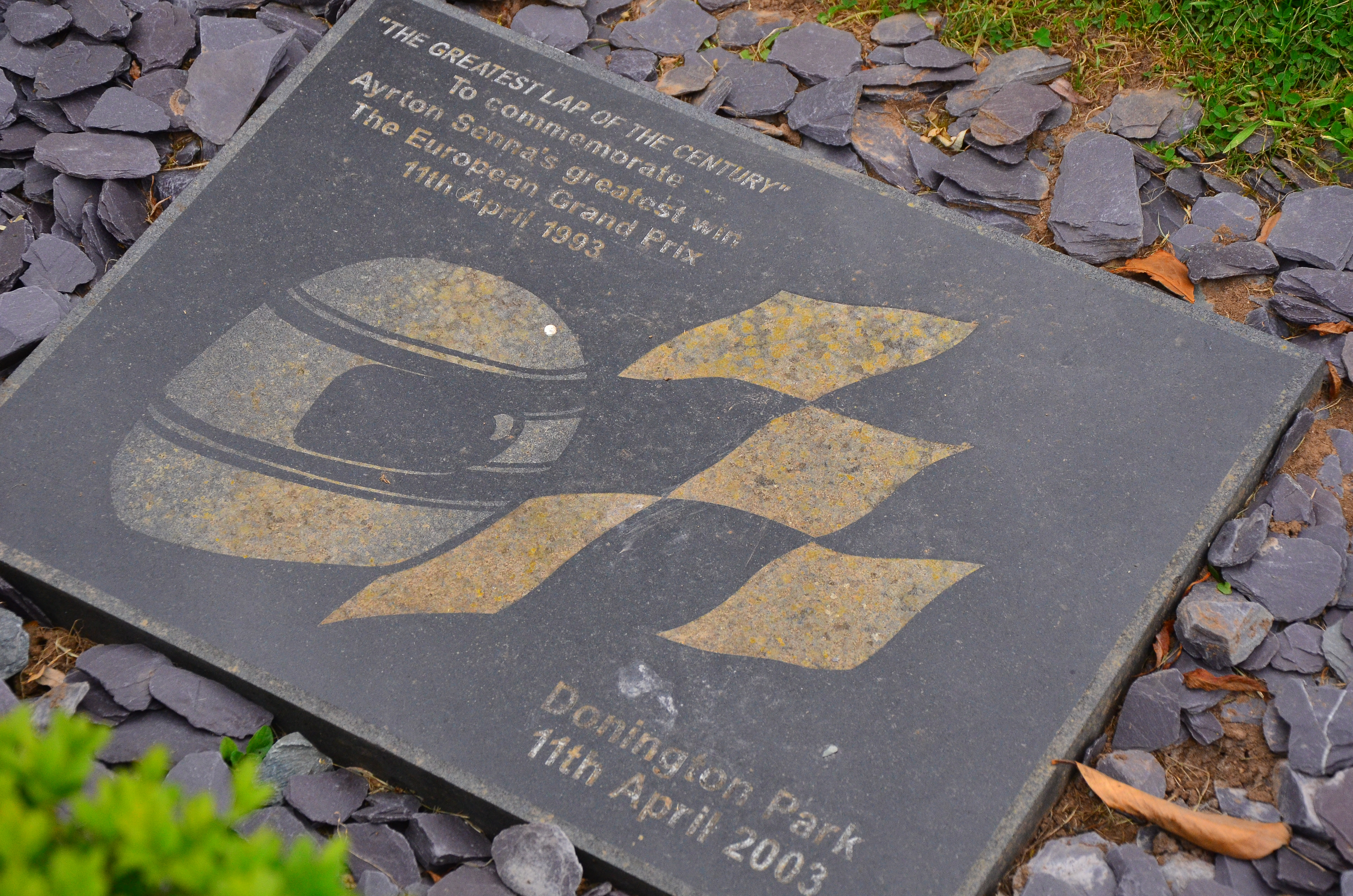 Plaque commemorating Ayrton Senna's win at Donington at the 1993 European Grand Prix